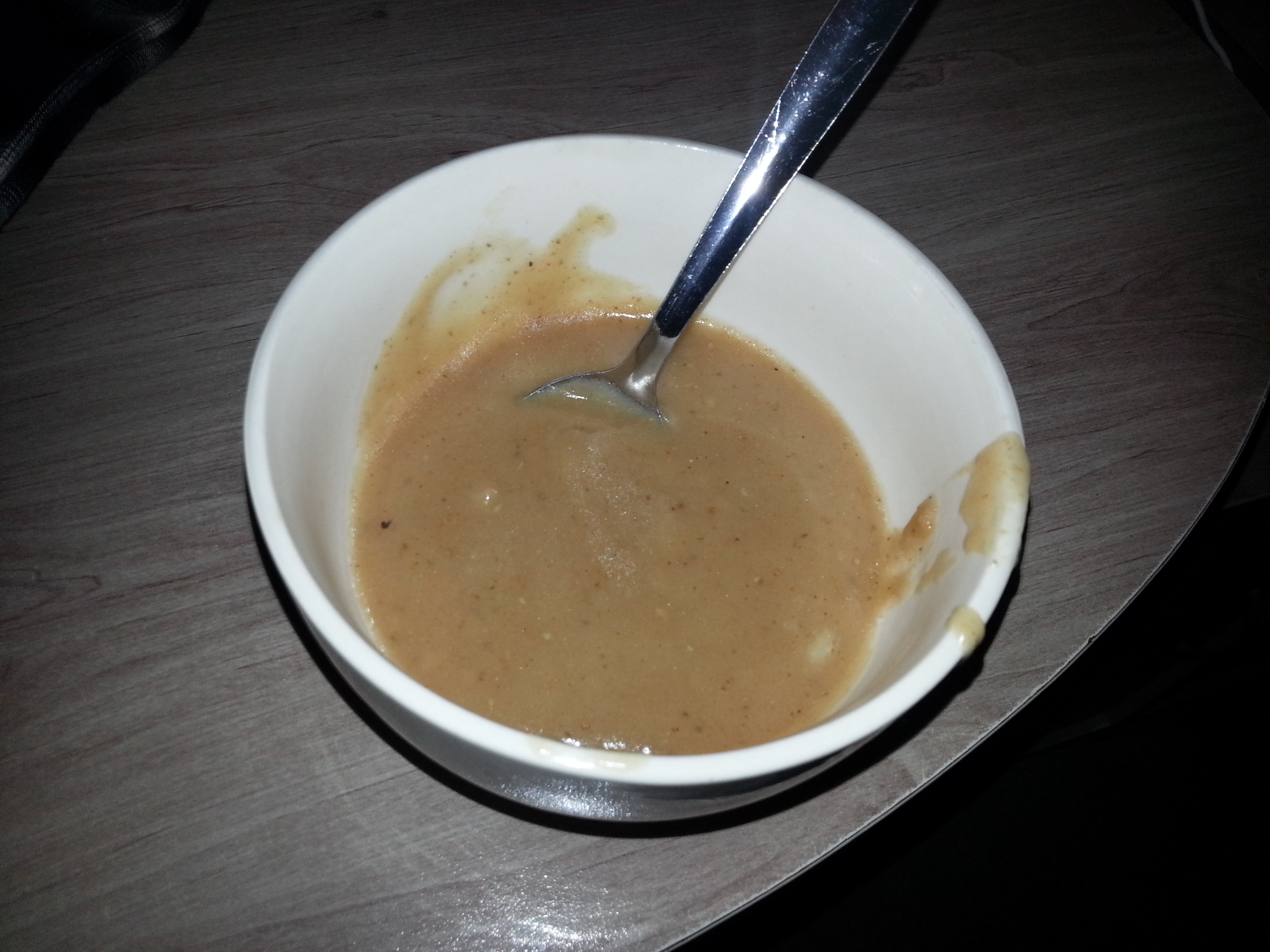 Flour-based sauce in Circassian cuisine